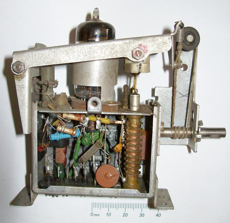 What you see is not a complete VHF-tuner. The image shows some parts of a VHF band III FM-superheterodyne: FM-filter, VHF-amplifier, electronic mixer and its oscillator. The antenna is connected to the left of the electron tube (ECC85 dual-triode). At the topmost right is the channel dial, that is connected to two mechanically variable VHF-inductors (helically wound copper bands). Power supply and MF-output are connected at the buttom.